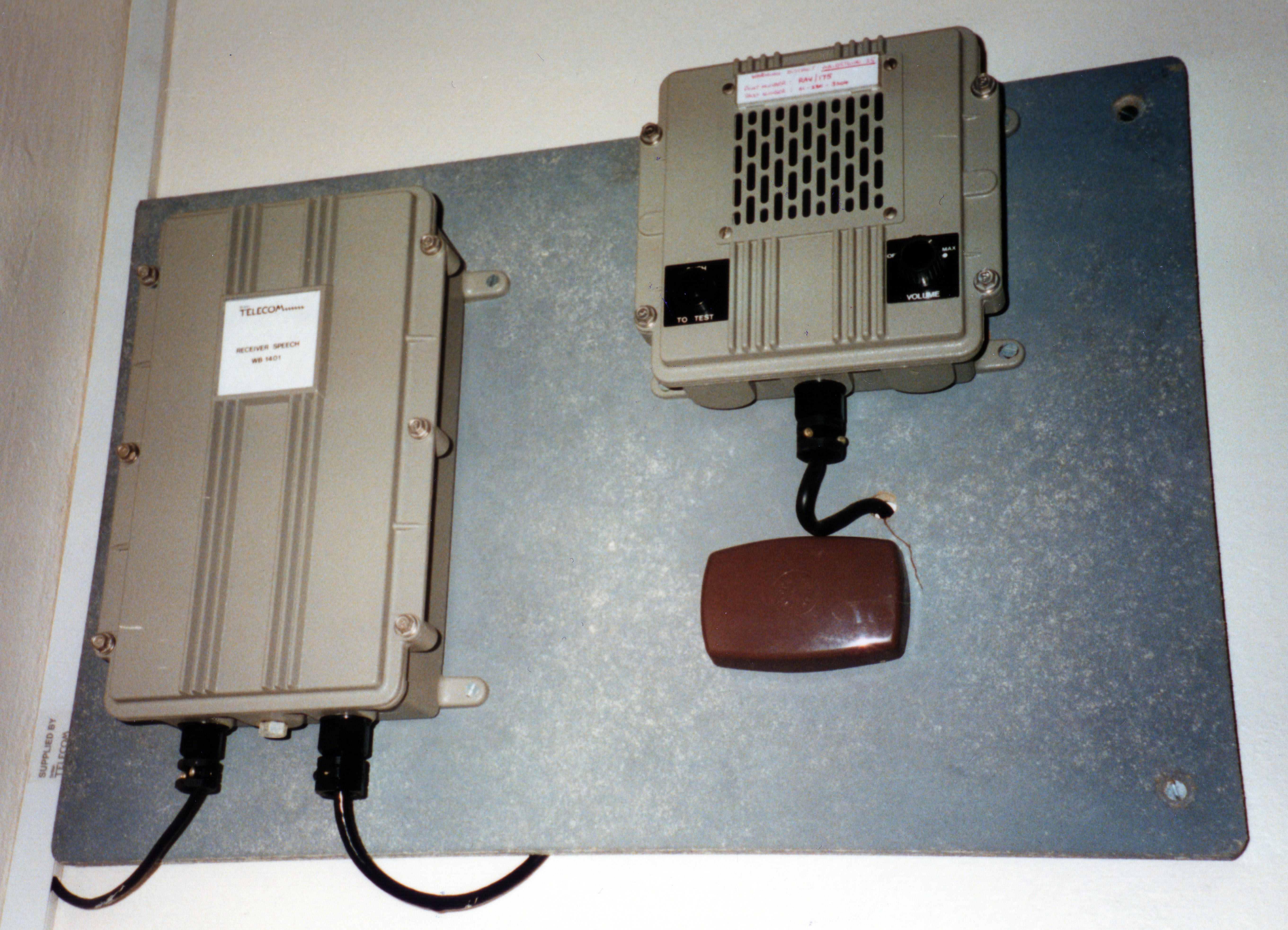 UK warning and monitoring receiver WB1401. In former South East London civil defence control centre in PearTree House, Lunham Road SE19. Left hand box says Receiver Speech.